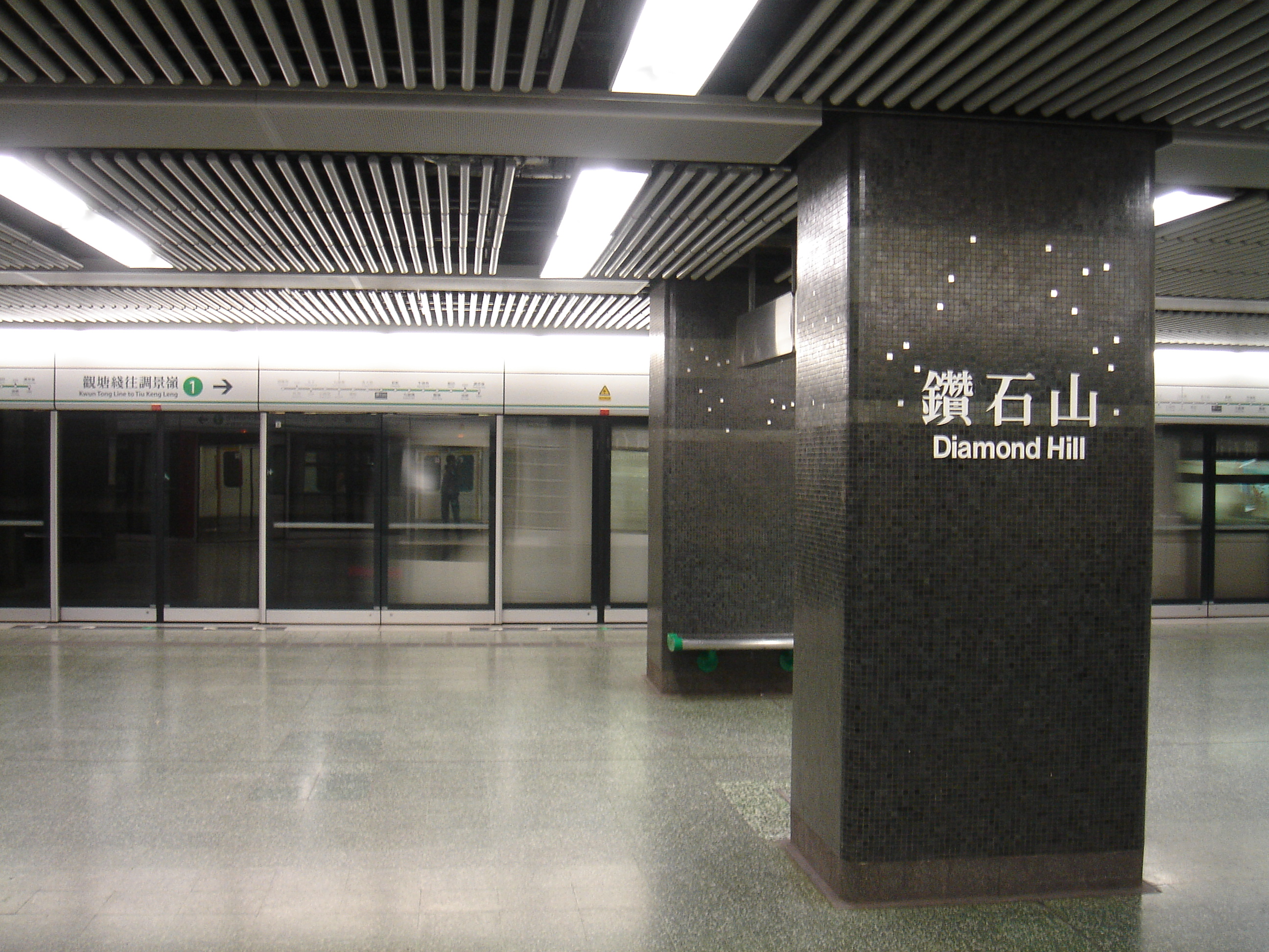 Diamond Hill (鑽石山) Station, Kwun Tong Line, MTR Hong Kong.